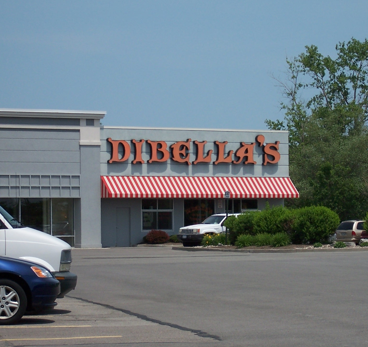 DiBella's Old-Fashioned Submarines, a popular sub shop in the Rochester, New York area. This particular location closed in 2010 in favor of a larger location a short distance away.